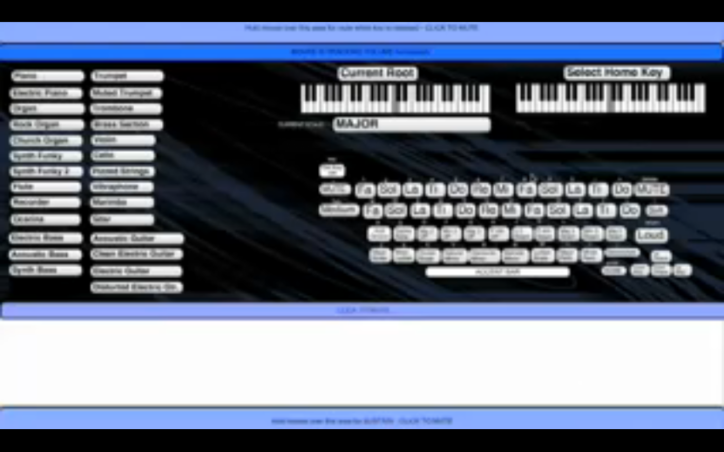 kreol screenshot